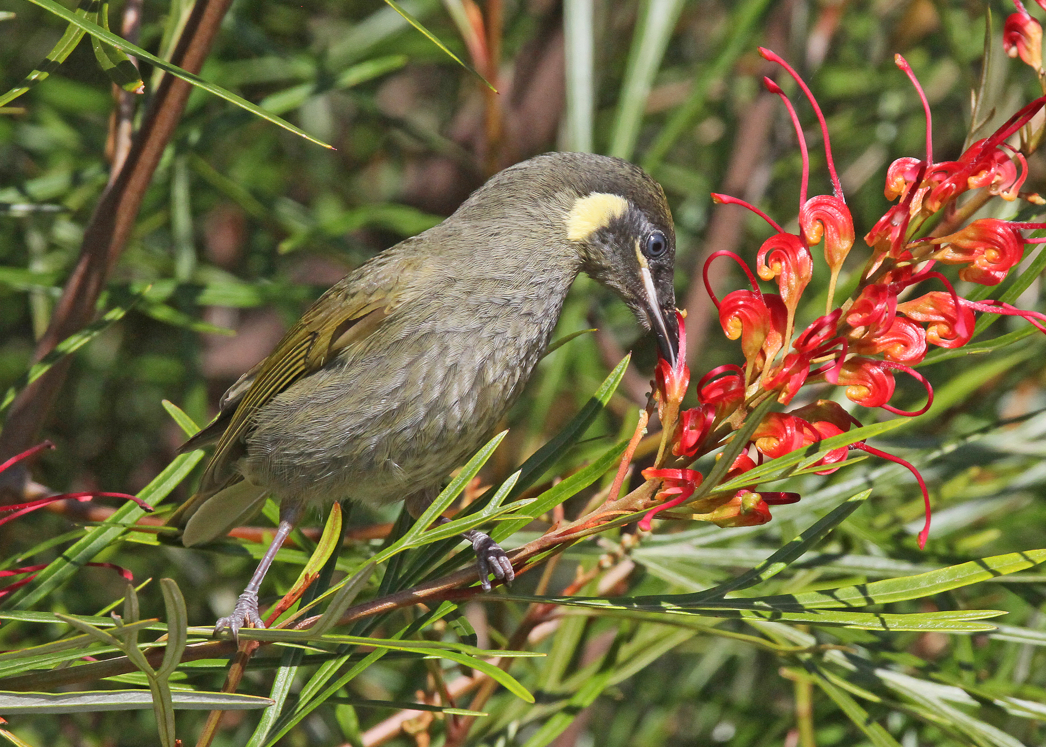 photo of Lewin's Honeyeater on Grevillea